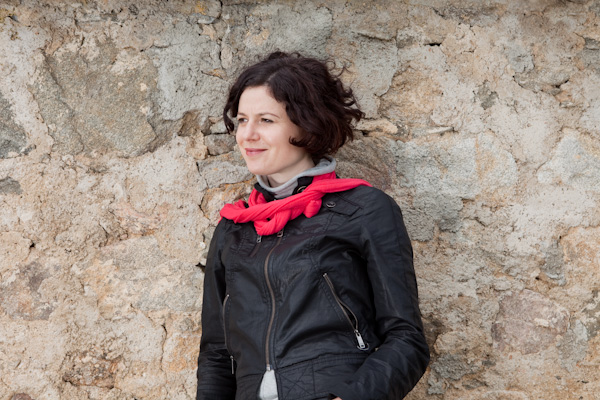 Author: Andrea Winkler, Austria, Vienna photographed by Kurt Hoerbst _